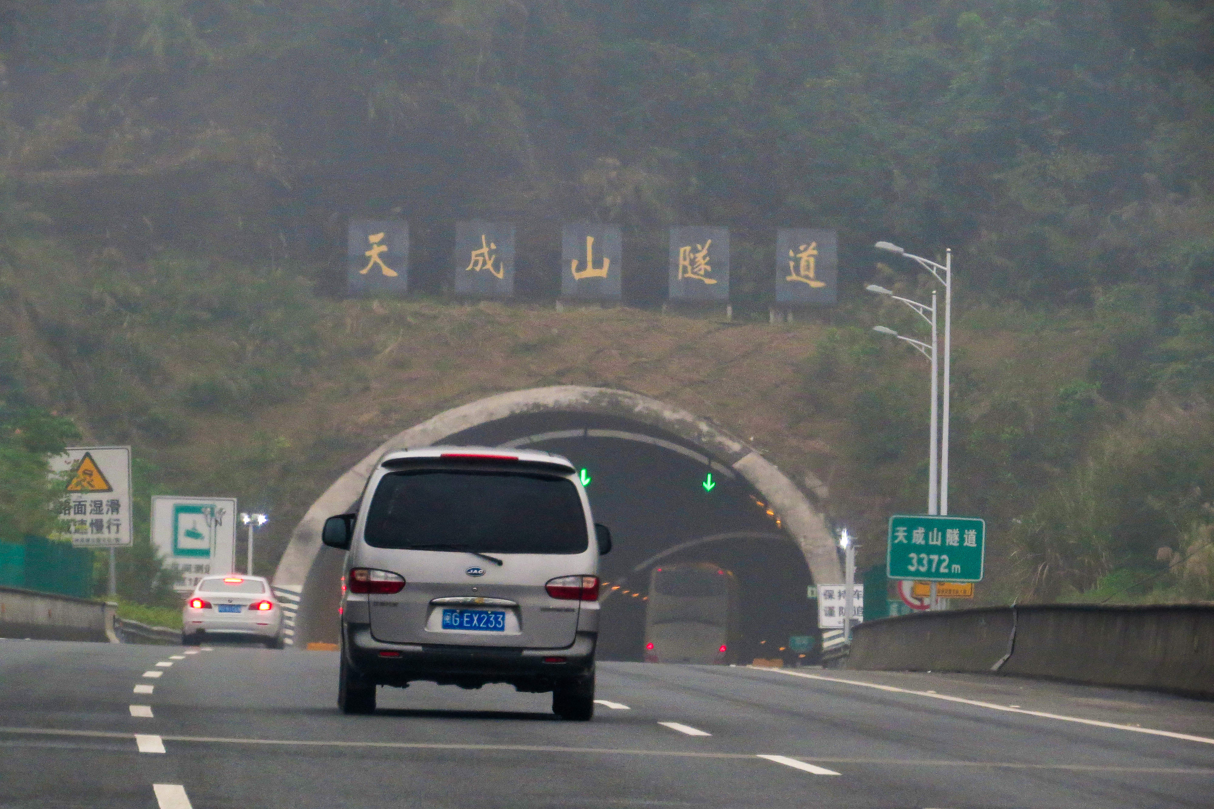 Not to be confused with Amagi tunnel... This entrance is located in Changtai County, Zhangzhou.